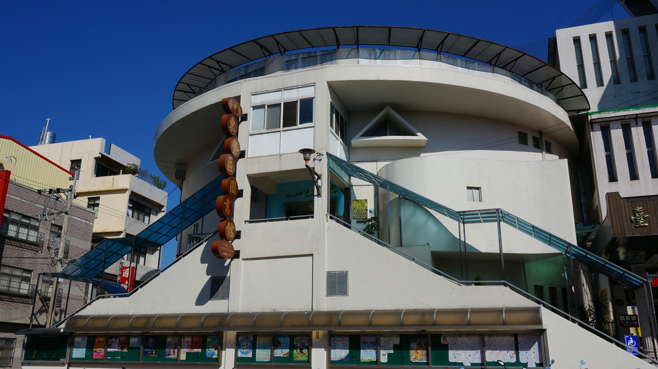 Dongshi District Library, Dongshi District, Taichung City, Taiwan中文（台灣）: 東勢區圖書館